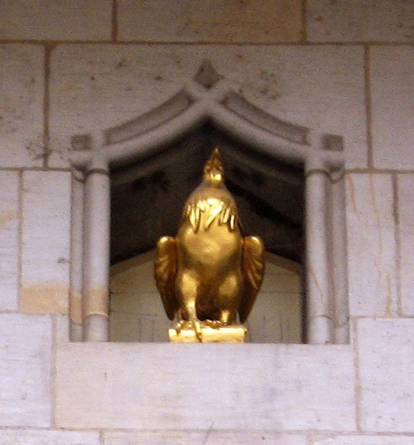 A cock on the Prague Astronomical Clock, the Czech Republic